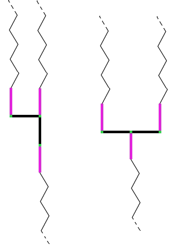 Chair plus tuning fork conformations triglycerides